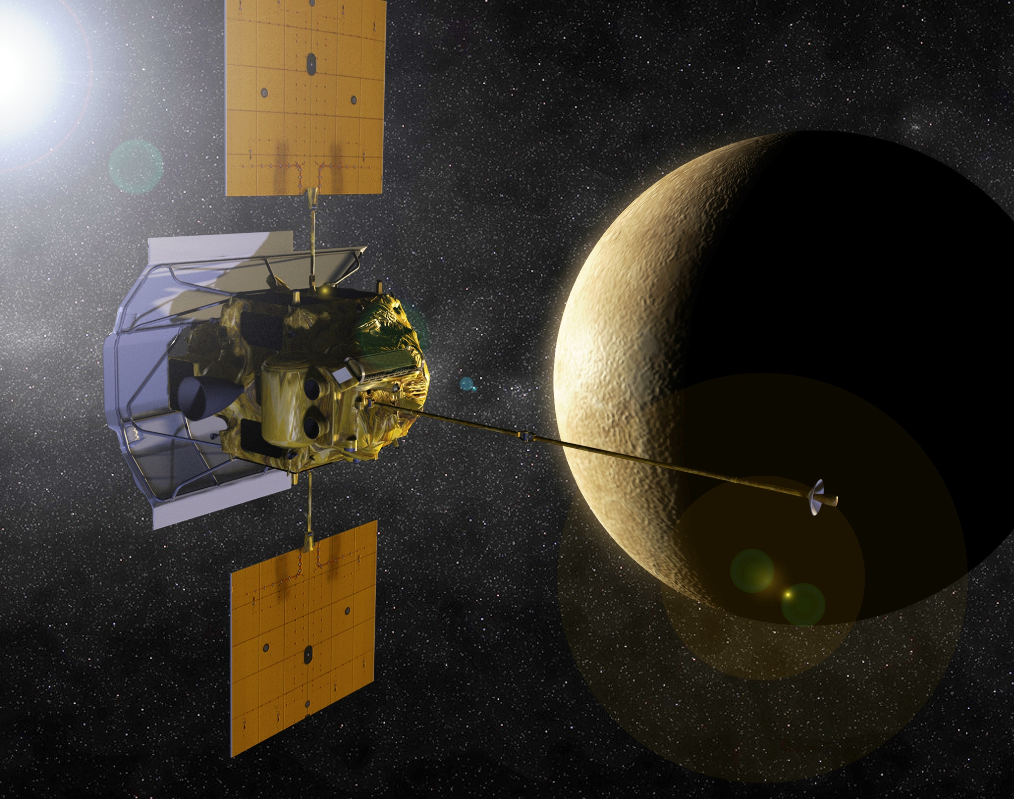 Source: [1] Image Credit: NASA/Johns Hopkins University Applied Physics Laboratory/Carnegie Institution of Washington Image produced by: Johns Hopkins University Applied Physics Laboratory/Carnegie Institution of Washington Specific copyright info: Messenger-specific copyright info [2]